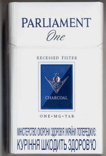 Parlament One cigarettes